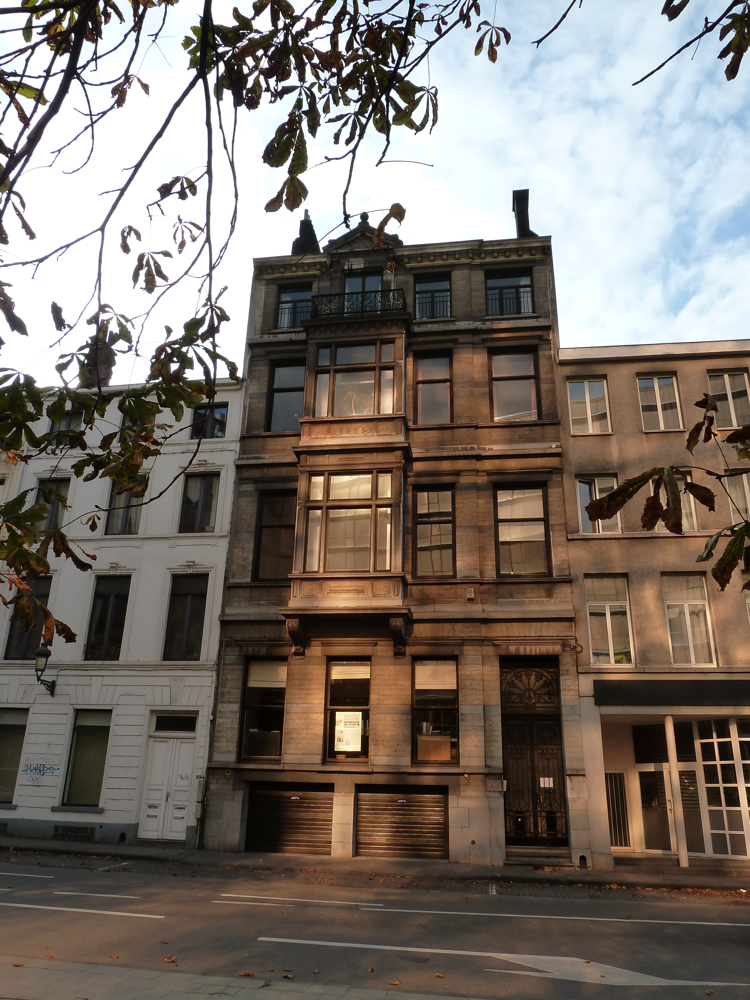 Office space Rue du Trône 51, Brussels